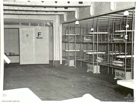 Sourced from: Copyright: The AWM record for this photo states that the copyright status is 'clear'. The photo was taken in 1943. AWM Caption: MELBOURNE, AUSTRALIA. 1943-03. VIEW OF PORTION OF ONE OF THE WARDS OF THE NEW HOSPITAL SHIP "CENTAUR".